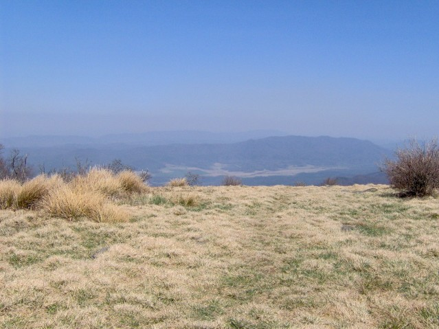 Looking northeast from the summit of Gregory Bald (el. 4,949 feet/1,508 meters) in the Great Smoky Mountains. Cades Cove is the strip of land below, with Rich Mountain rising above it. Townsend, Tennessee and Blount County are beyond Rich Mountain.